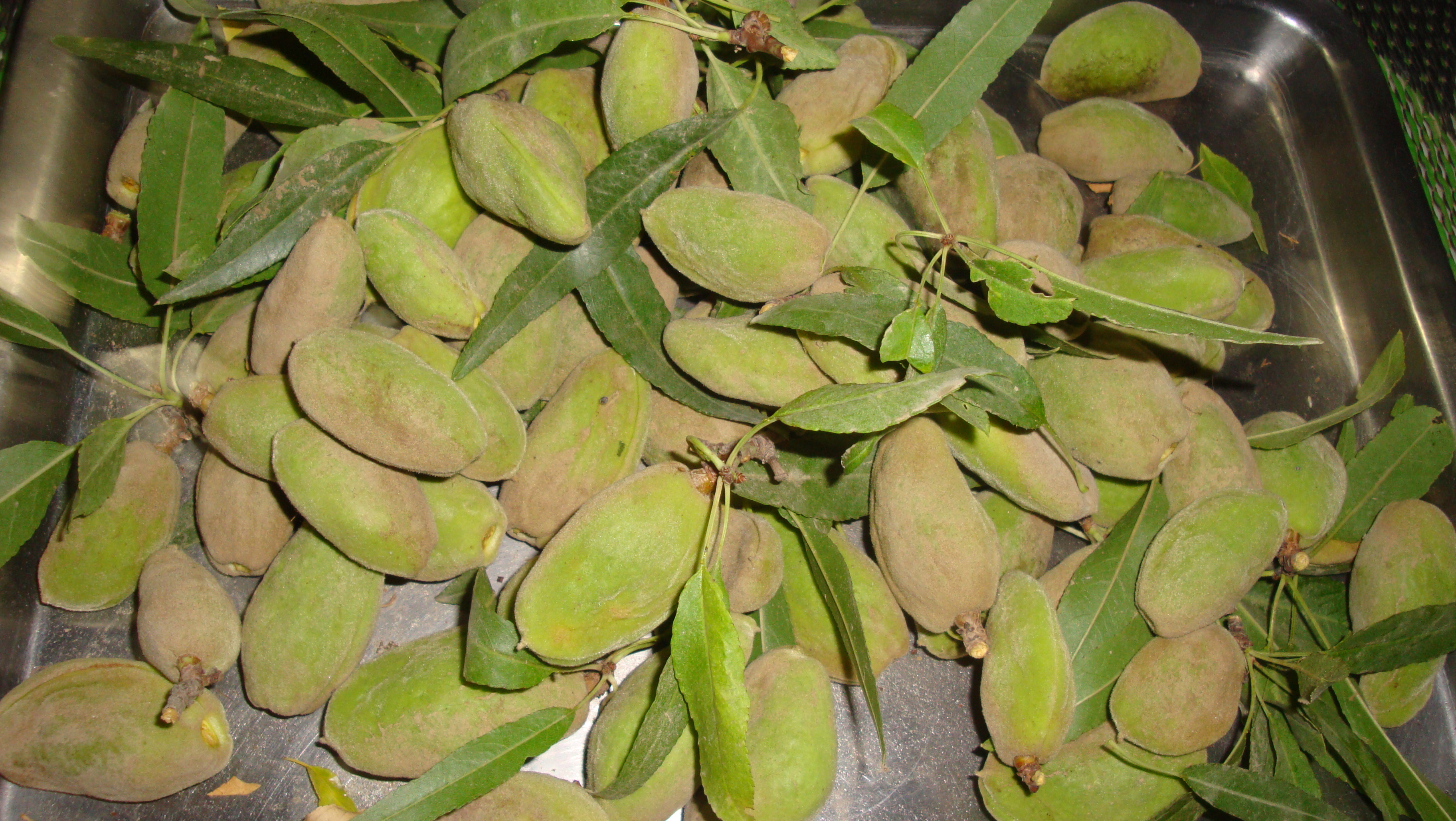 Almonds from Paghman District of Kabul Province